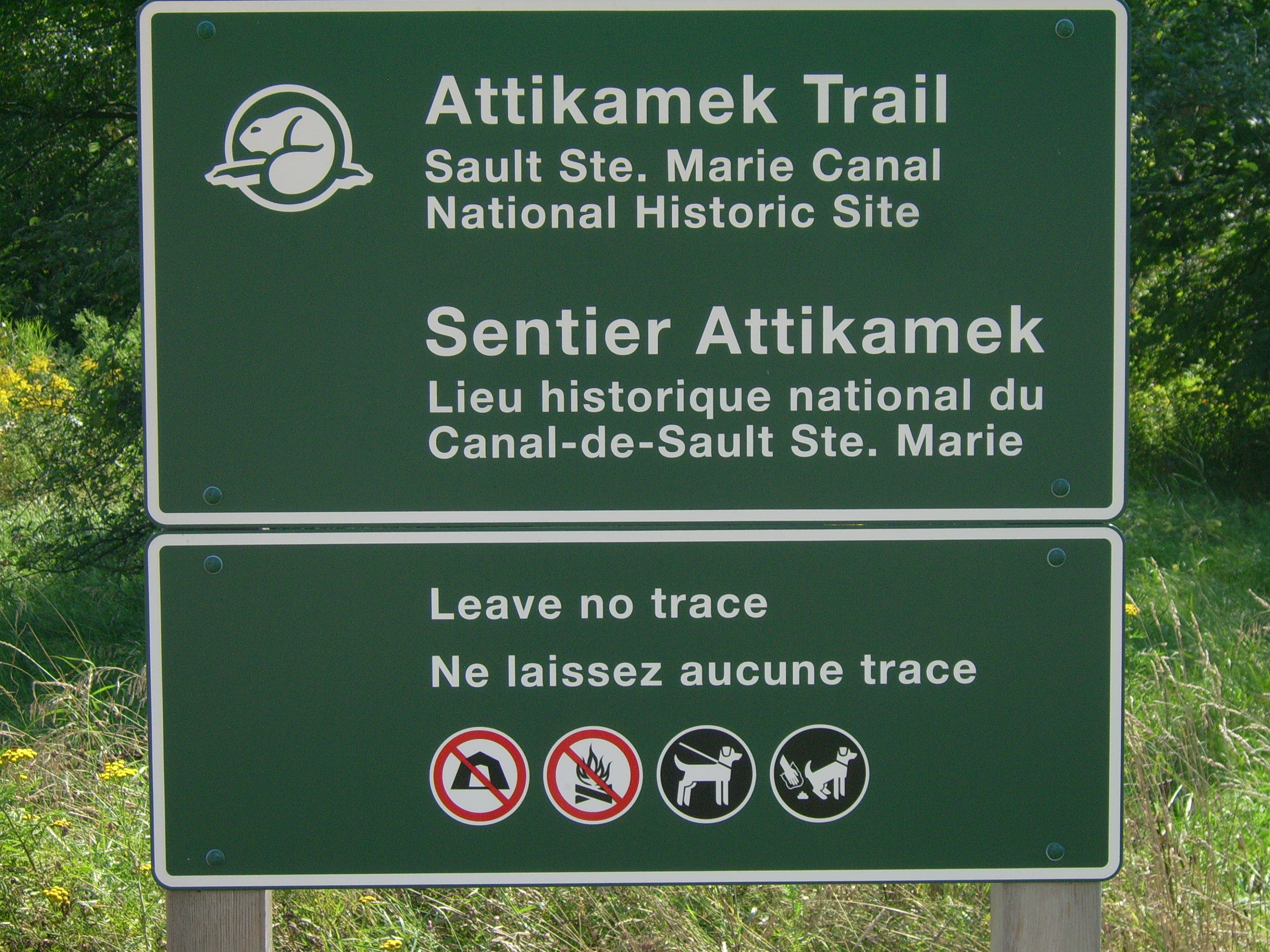 Attikamek Trail sign, Sault Ste. Marie Canal National Historic Site of Canada, Sault Ste. Marie, Ontario. Attikamek Trail Sault Ste. Marie Canal National Historic Site Sentier Attikamek Lieu historique national du Canal-de-Sault Ste. Marie Leave no trace Ne laissez aucune trace